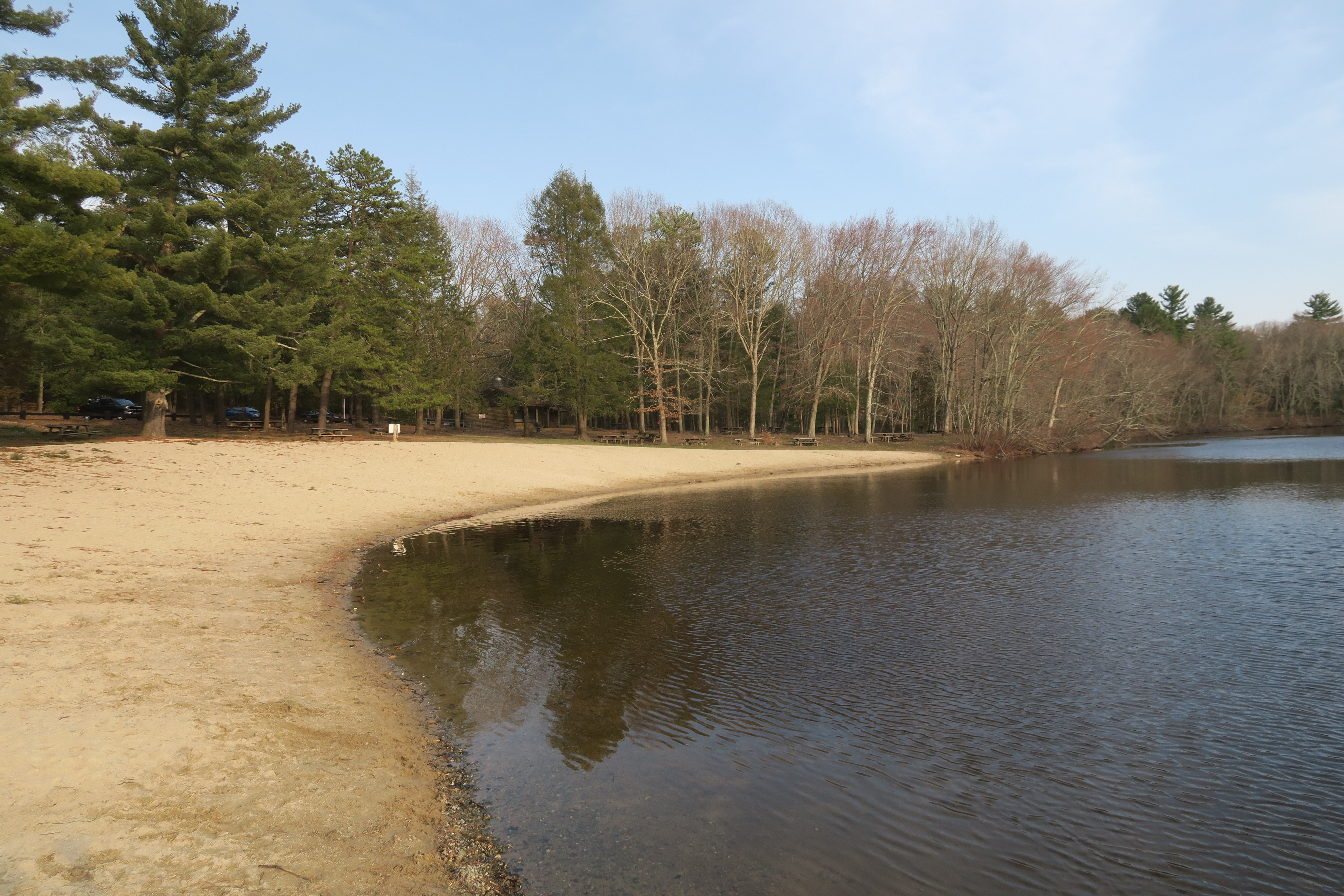 Beach, Hopeville Pond, Griswold Connecticut